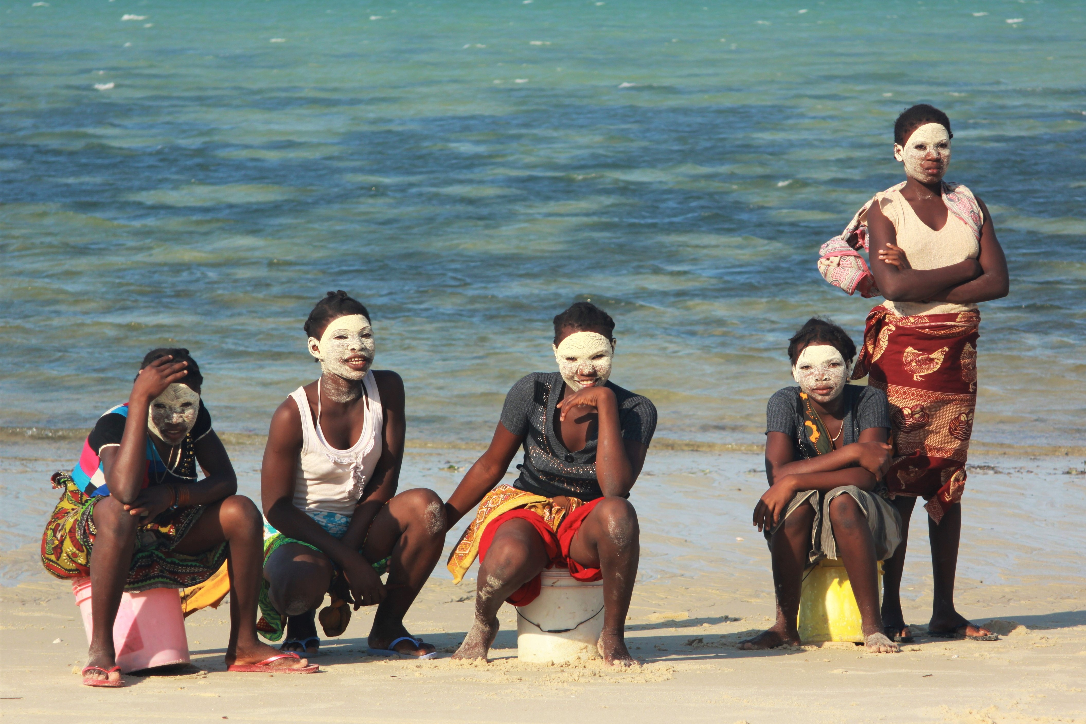 Macua women on Guludo beach having a photo break during their daily shells harvesting. This is an image of "African people at work" from Mozambique